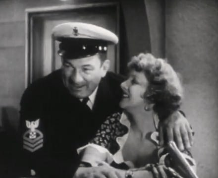 Victor McLaglen and Helen Flint in Sea Devils (1937) - trailer (cropped screenshot)